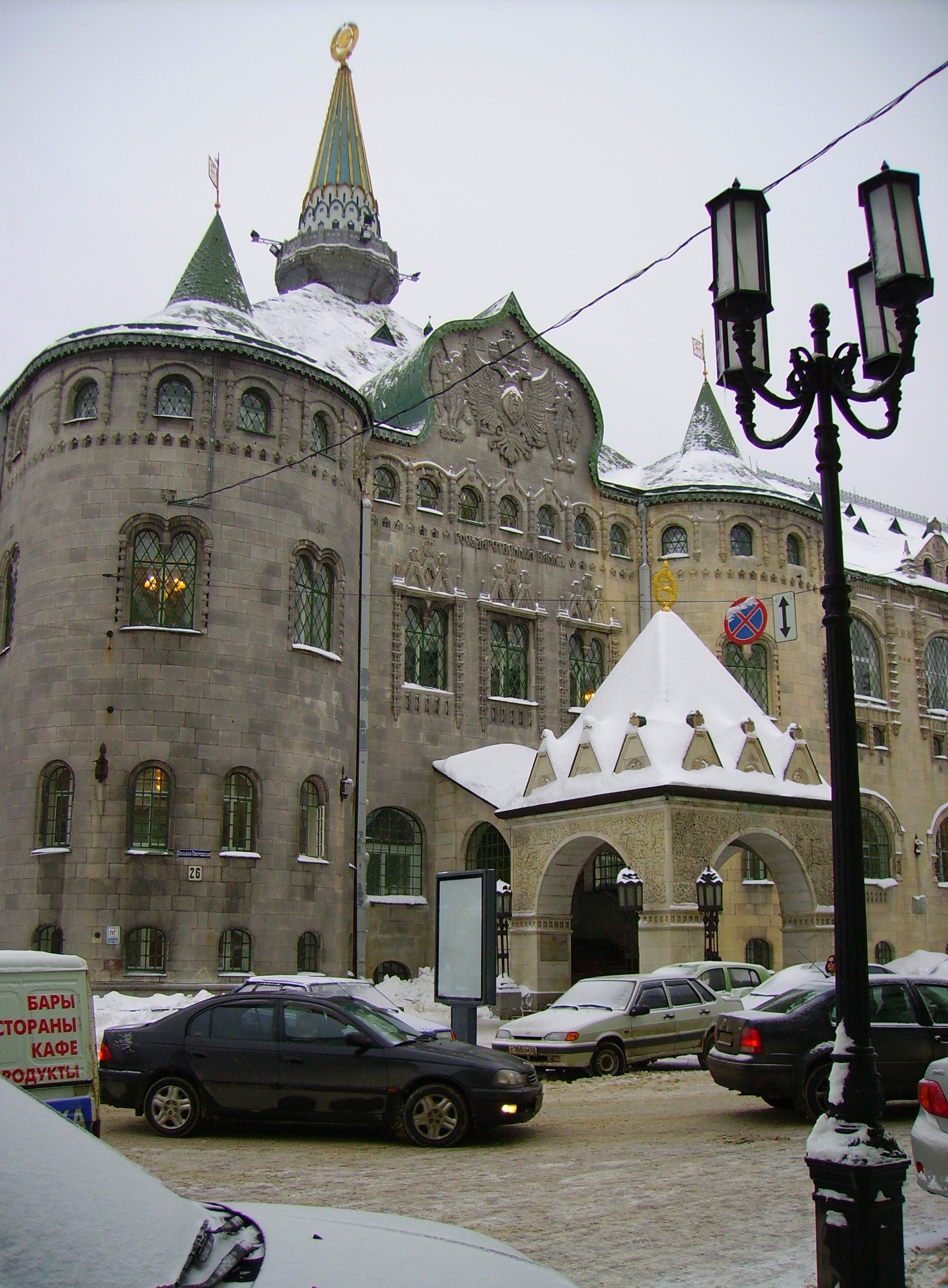 State Bank in Nizhny Novgorod. Built in 1913.